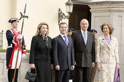 EL PARDO PALACE, MADRID. Dmitry and Svetlana Medvedev, King of Spain Juan Carlos I and Queen Sofia at the official welcome ceremony.